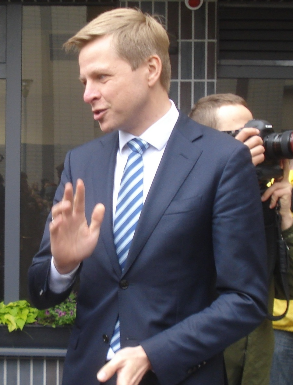 Remigijus Šimašius (born 1974), Lithuanian jurist and politician, member of Seimas (2012-2016), Minister of Justice (2008-2012), Mayor of Vilnius since 2015